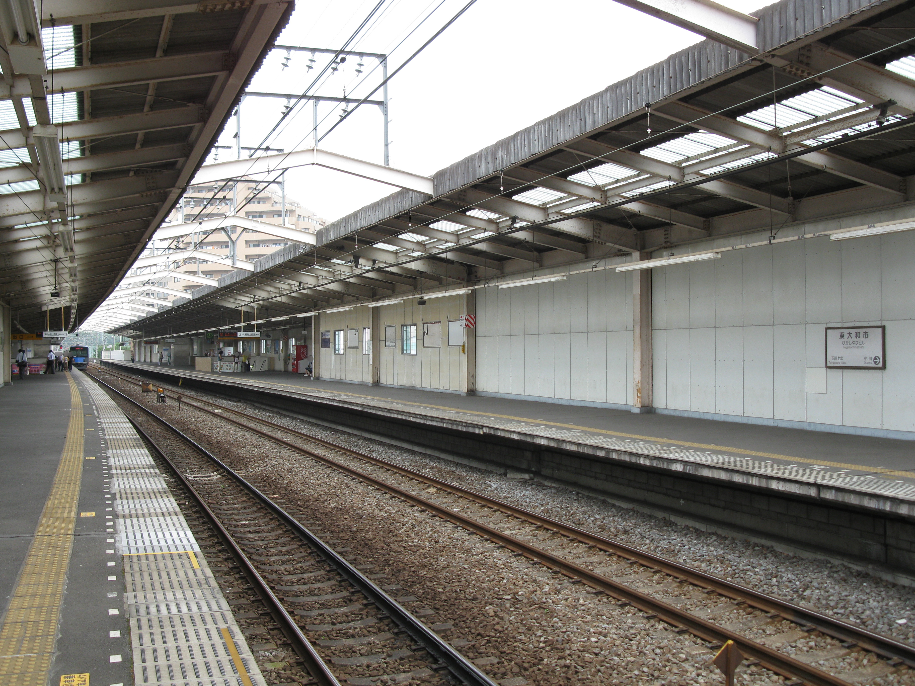 Higashiyamatoshi Station platform (Seibu Railway Haijima Line)